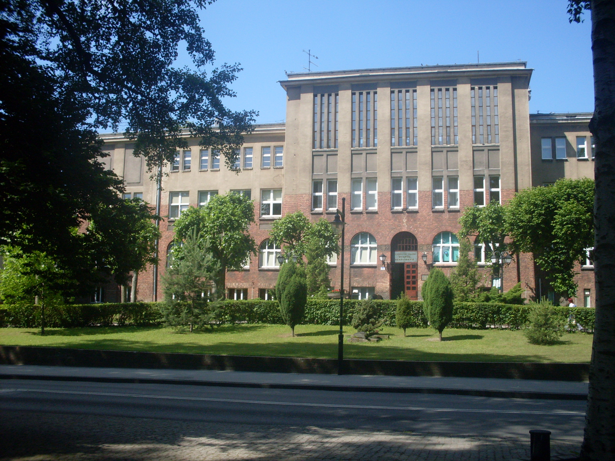 Faculty of Management by Gdańsk University. Formerly Academy of Marine Trade also Academy of Economy. Who later part of Gdańsk University. Localise at Armia Krajowa Street 101 in Sopot.